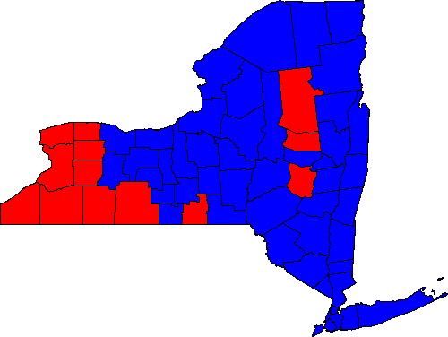 Image showing county-by-county results of the 2010 gubernatorial election in New York, country results taken from The New York Times website, with blue shading representing counties carried by Cuomo and red shading representing counties carried by Paladino.